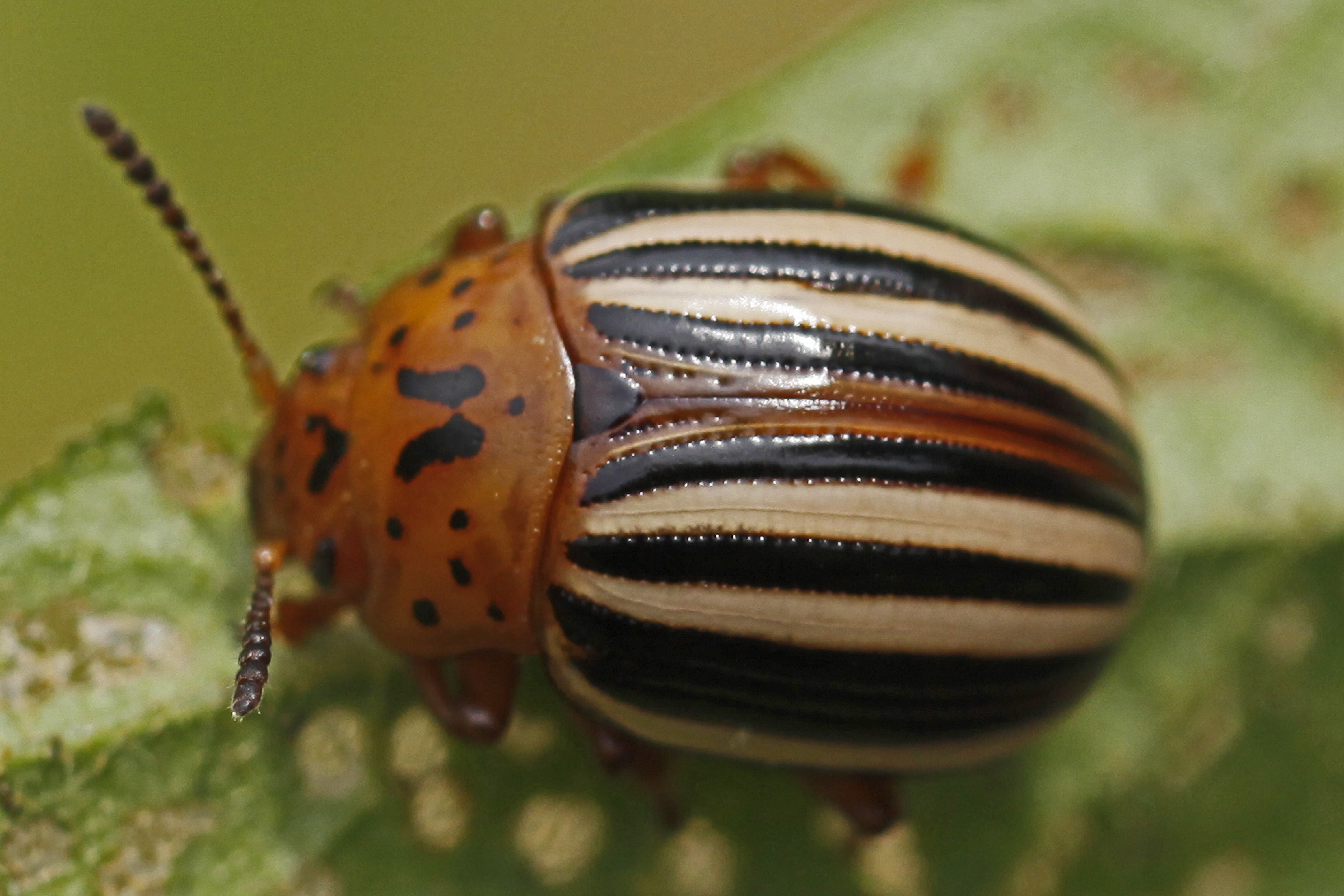 False Potato Beetle, Leptinotarsa juncta, Merrimac Farm WMA, Va.